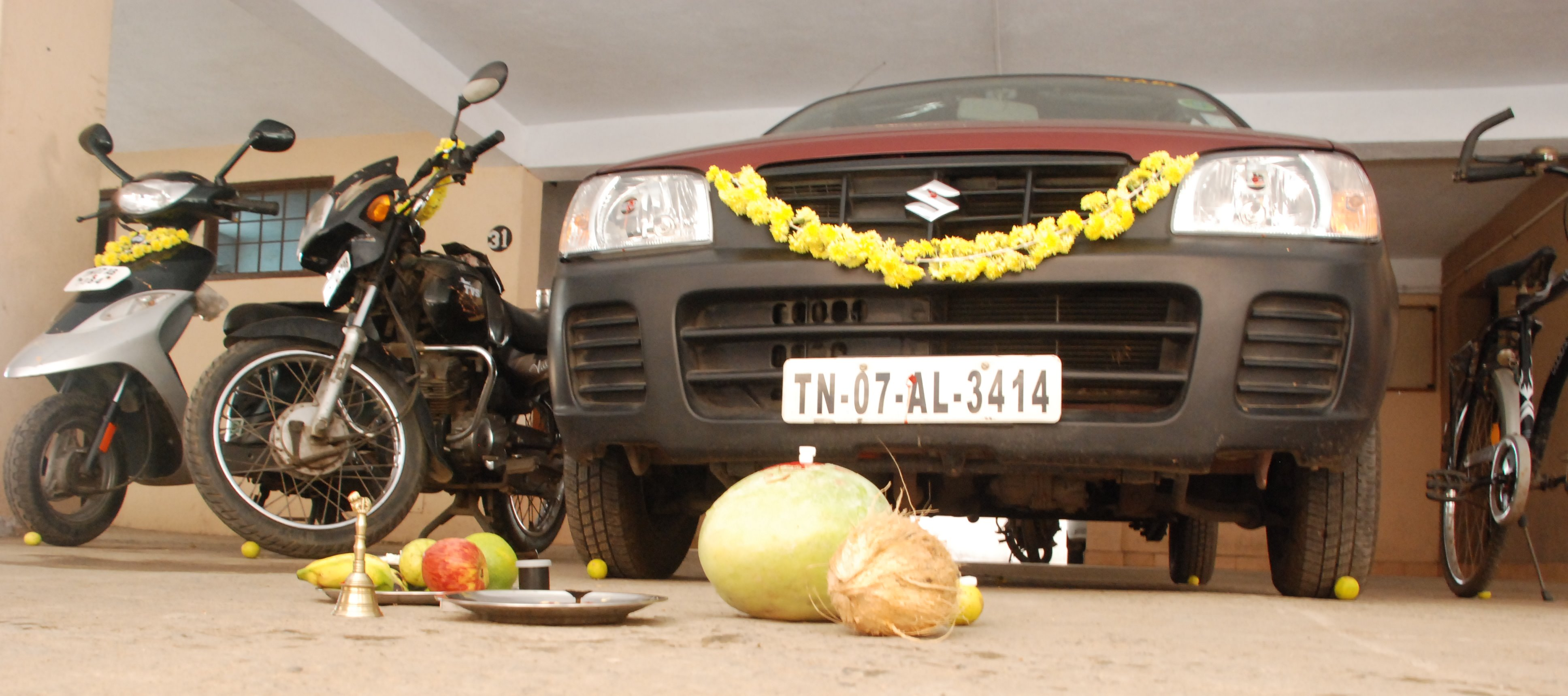 After the slaying of Mahishasura and other demons by Chamundeswari, there was no more use for her weapons. So the weapons were kept aside and worshipped. This Ayudha puja is being celebrated since ancient times. On this auspicious day, students offer their books to the Goddess Saraswati who is known to bestow knowledge and wisdom to all of her worshippers..It is popular belief that students are forbidden to read on that day; the next day which is Vijaya Dashami is when they should re-open their text books and read thereby invoking the blessings of the Goddess of learning. For others the day has special meaning . To all the workers the worship of their tools is a must on this day.This day is celebrated as Ayudha Pooja .People worship Vishwakarma who was the architect of the world . All the tools ,machines, vehicles etc are cleaned ,painted and well polished after which they are smeared with sandalwood paste and vermilion with great care. After the poojas are carried out the machines are left to rest for the day,following which the prasadams consisting of puffed rice, fruits , sweets made of jaggery and "sundal" (boiled lentils) are distributed among everyone.